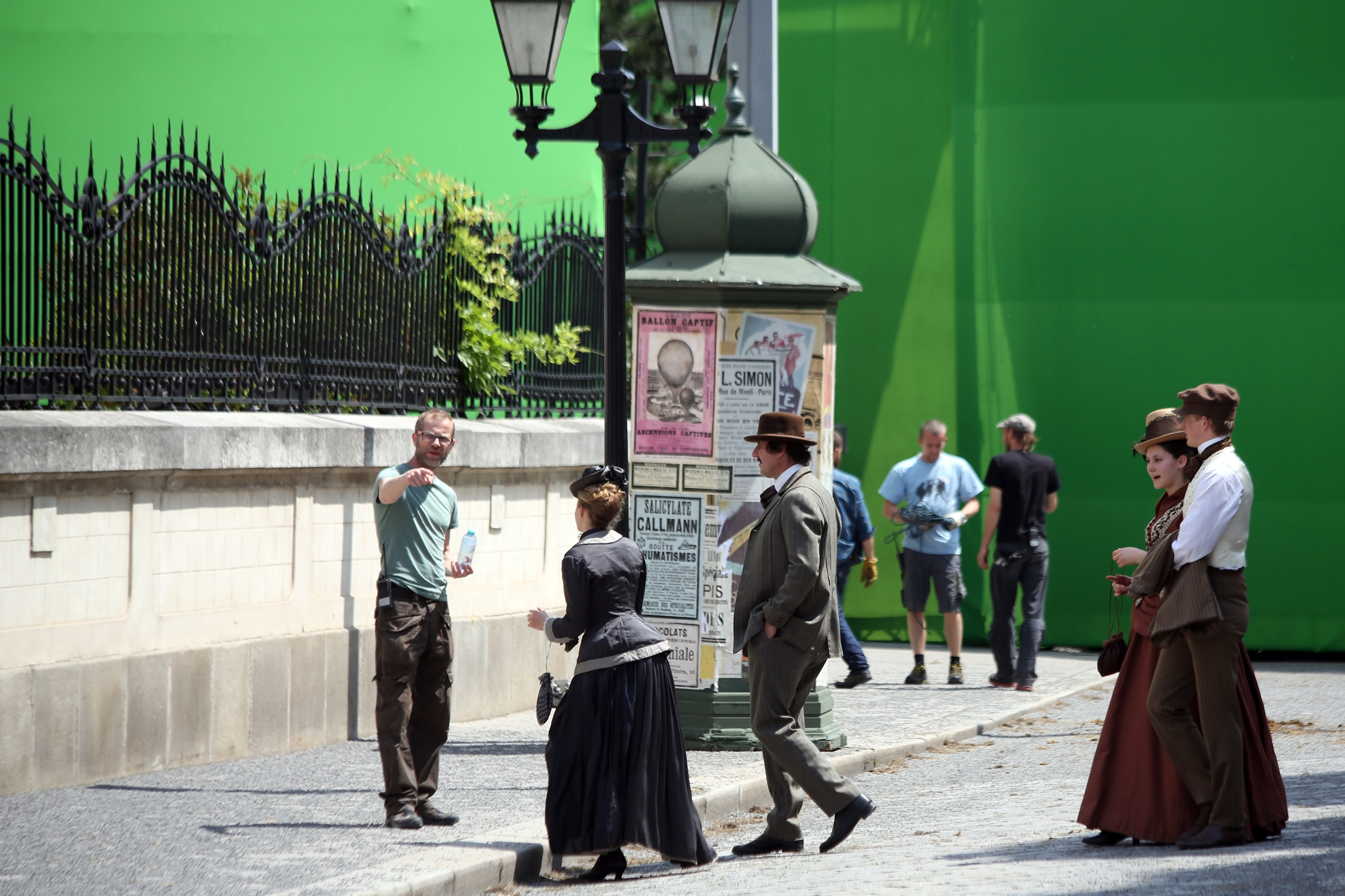 Filming of the movie Madame Nobel in and around the Embassy of France in Vienna (Vienna, Austria).